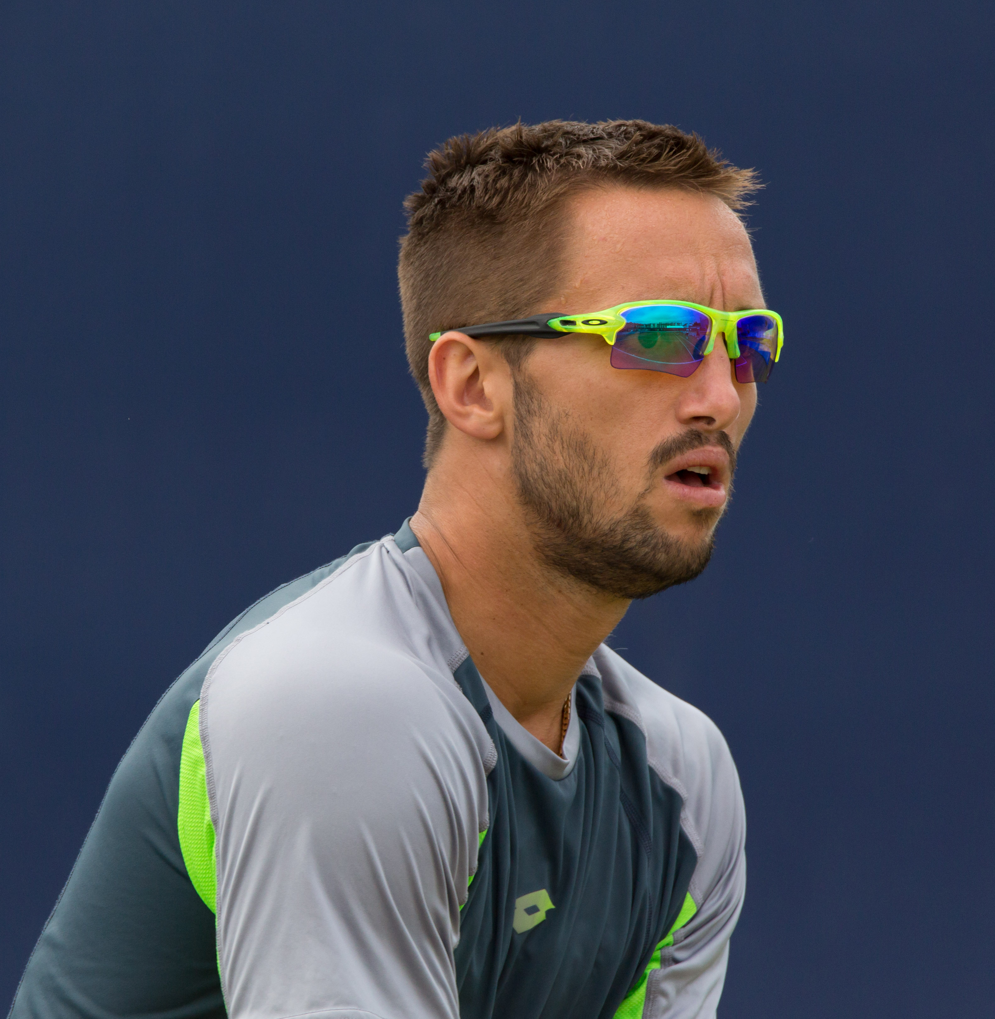 Viktor Troicki during practice at the Queens Club Aegon Championships in London, England.